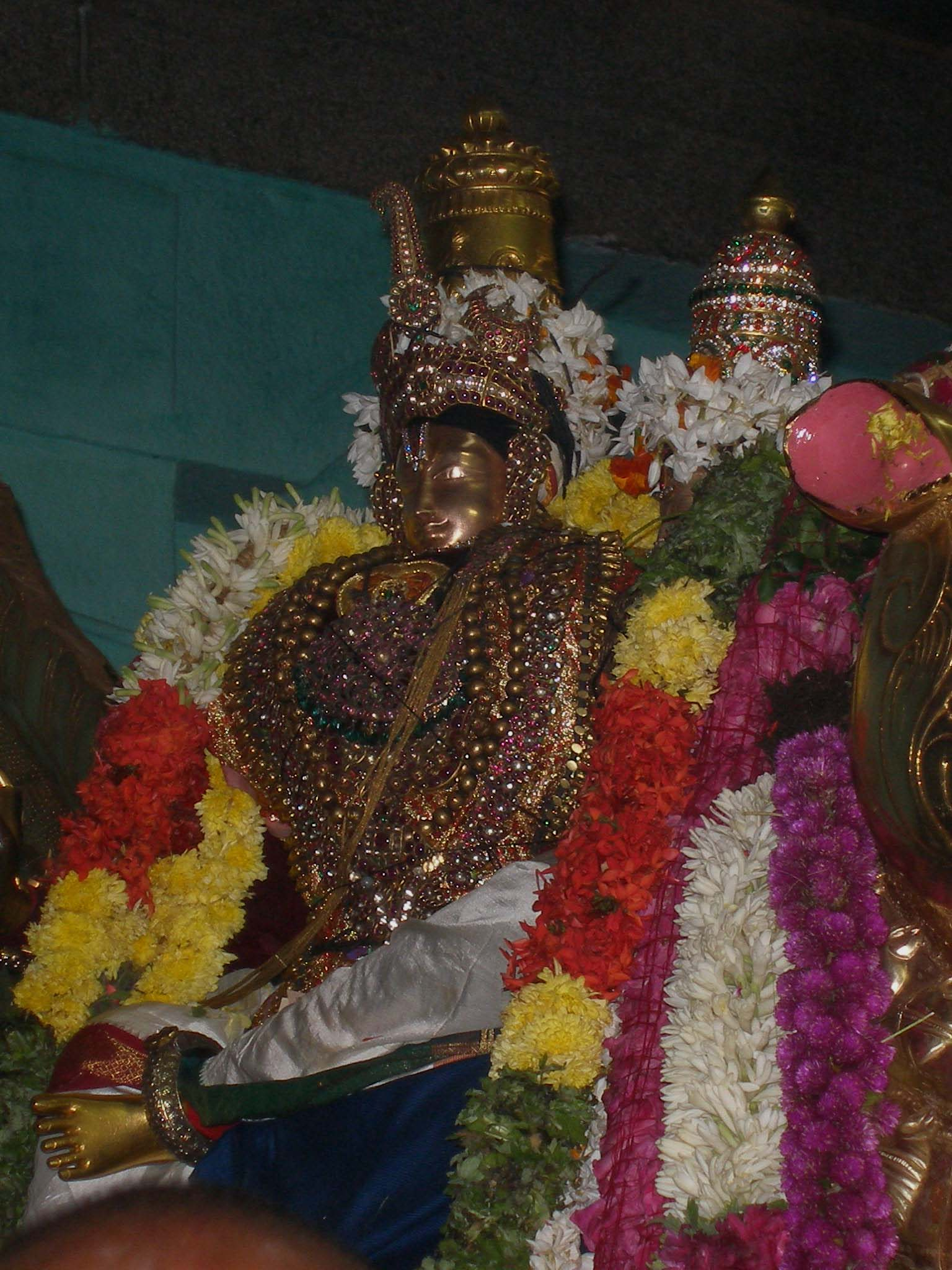 This picture was taken at Thirunaangur, a small village in TamilNadu, where, every year, on the second day after the New moon in the month of Thai (mahara), i.e, Jan 15th -Feb15th, Vishnu idols from eleven temples converge, get mounted on gold plated huge Garuda vaahanas(mounts), magnificiently decorated with floral garlands, give dharshan to Thirumangai Alwar, the wonderful Devotee. This picture is of thitumangai Alwar, seated on gold plated Hamsa(swan mount) vaahana, along with his wife,Kumudhavalli Thaayar, a true pious lady, having dharshan of eleven vishnus of whom he has sung poems of great devotion.